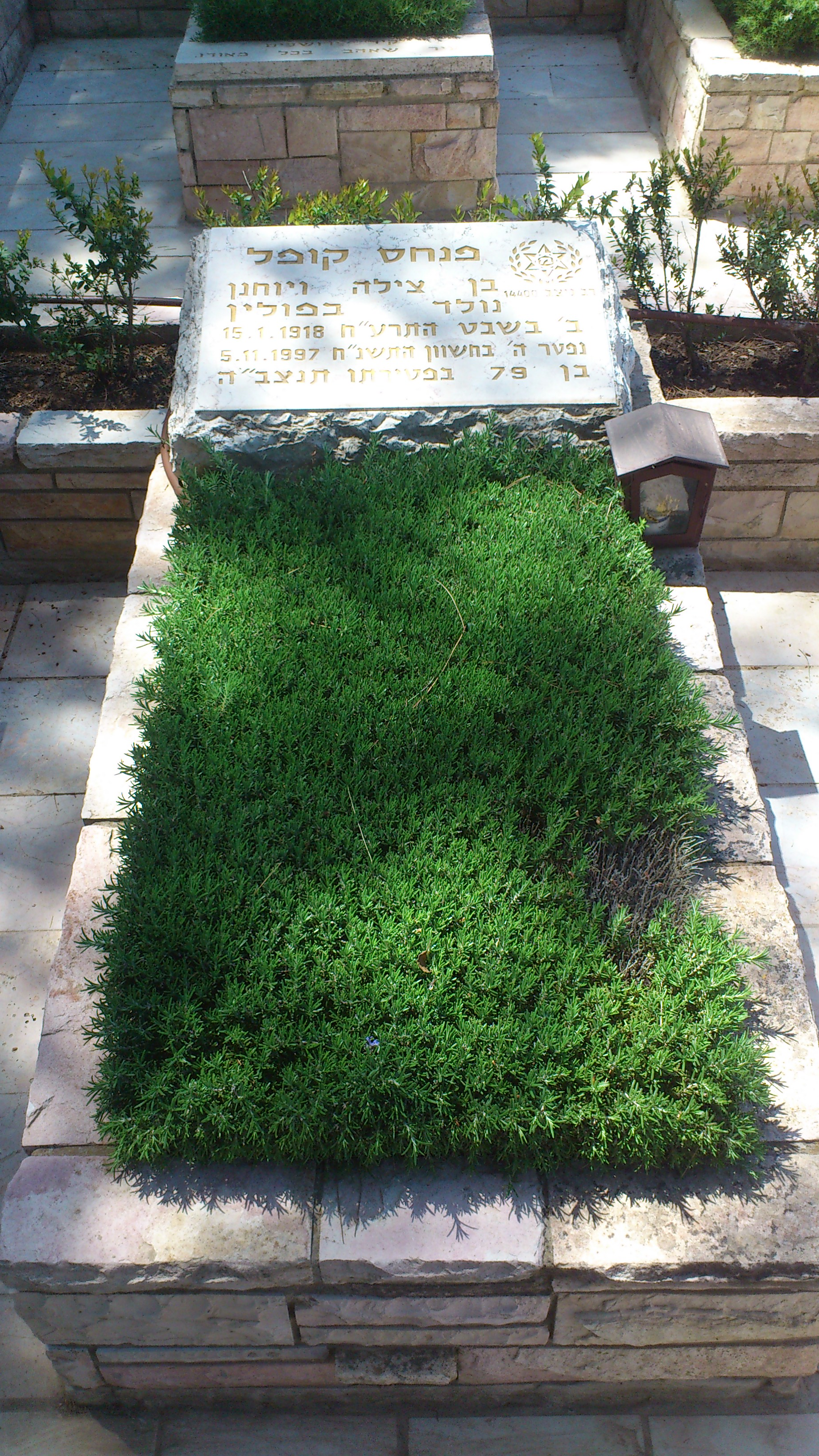 Pinhas Kopel